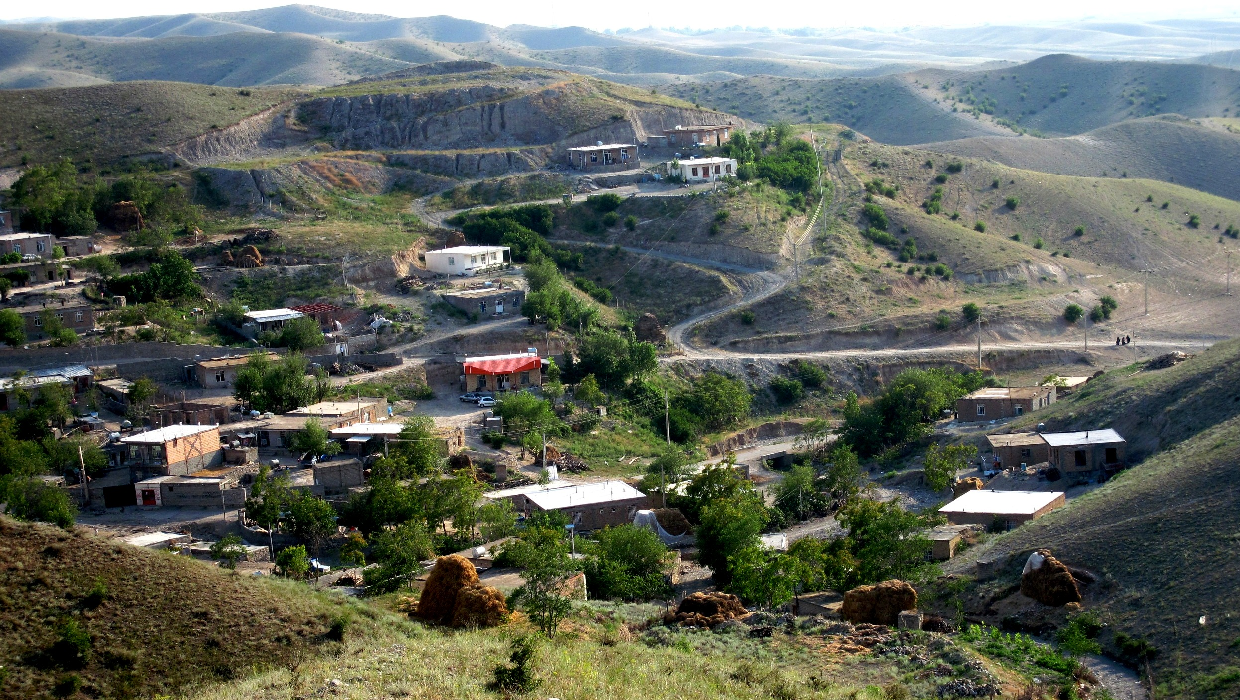 For Arasbaran wiki page.